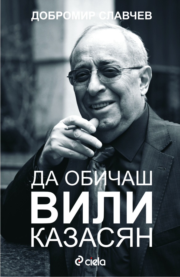 Cover of „Да обичаш Вили Казасян“, published with permission of the author of the book and media copyright, Dobromir Slavchev